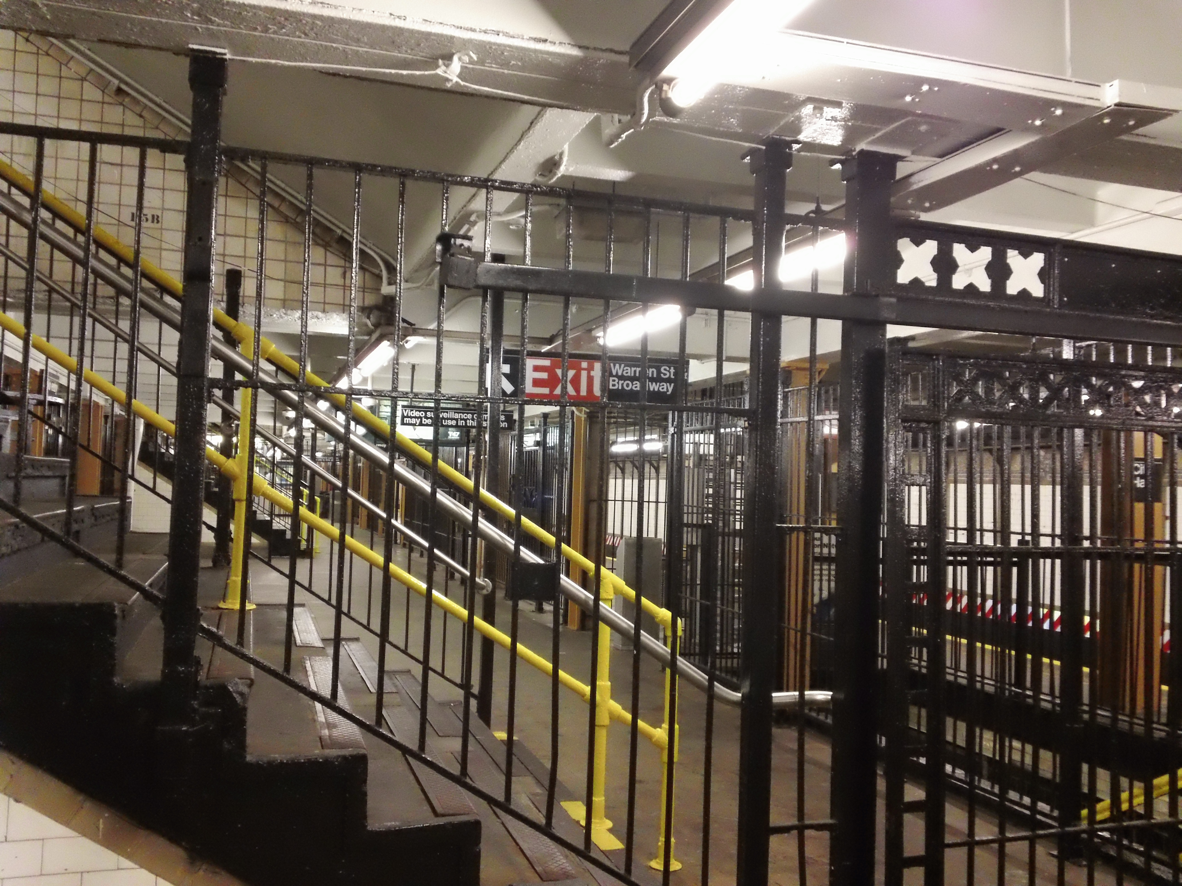 On the R line